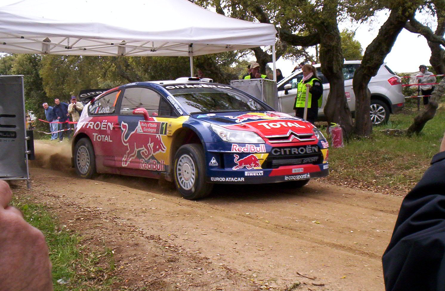 Sébastien Loeb and Daniel Elena at the start of the second day in Rally Italia-Sardegna 2008, SS Punta Pianedda.